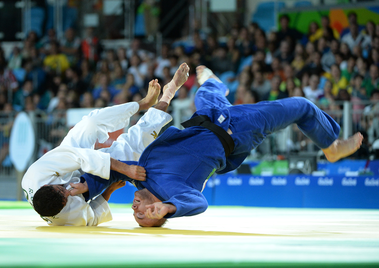 Judo at the 2016 Summer Paralympics – Men's 73 kg, Gasimov vs Solovey